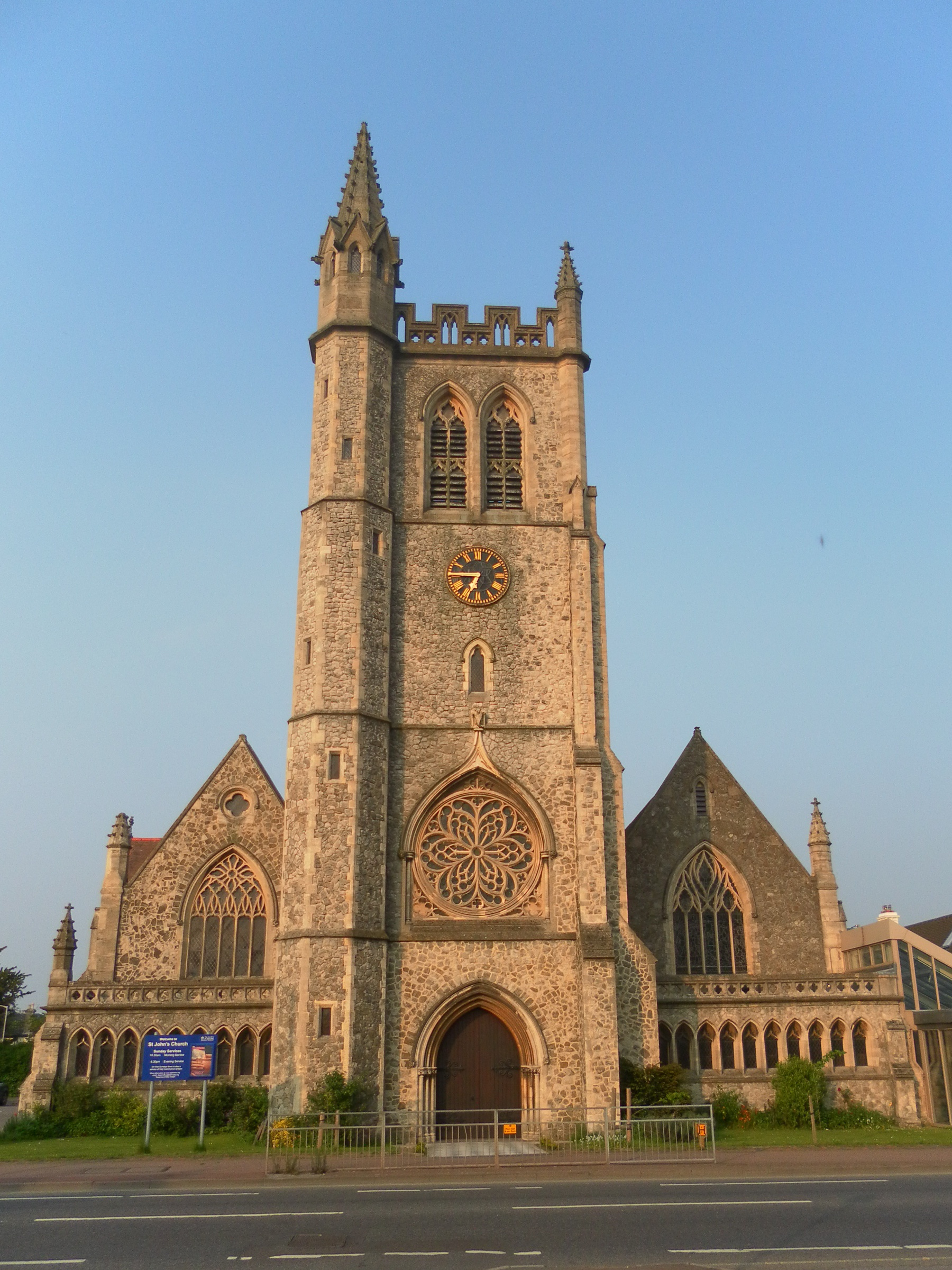 St John's parish church, Amherst Road, Royal Tunbridge Wells, Kent, seen from the west